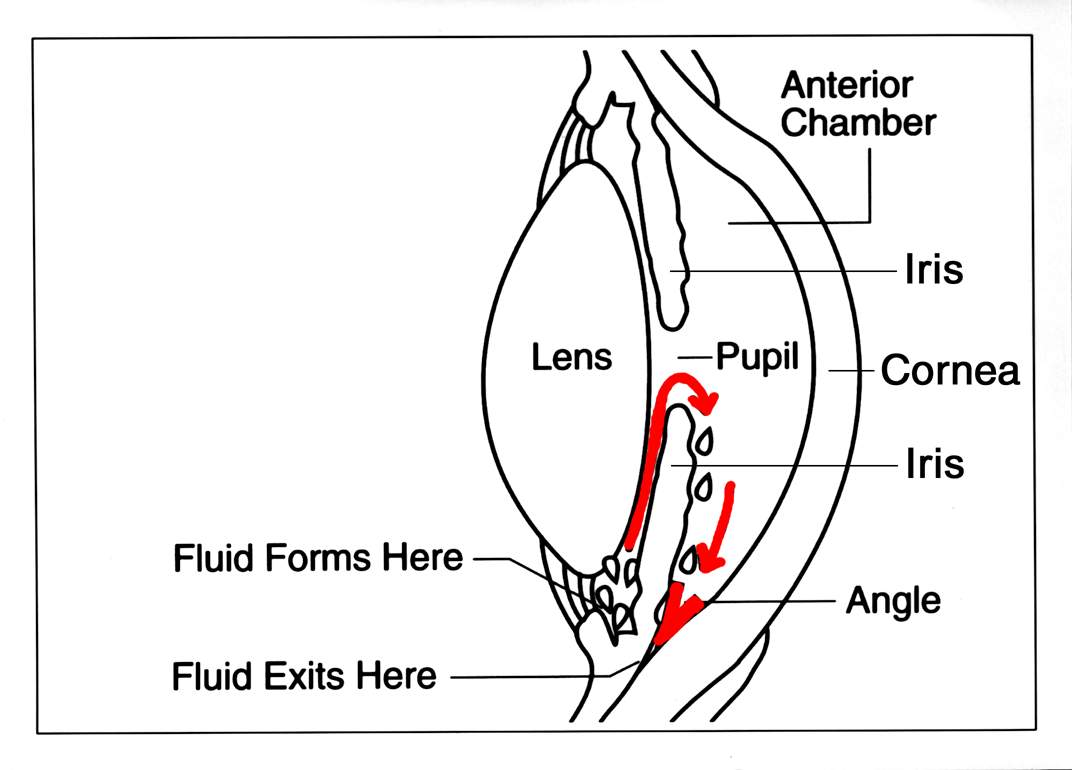 Illustration of an anterior chamber Description: In many people, increased pressure inside the eye causes glaucoma. In the front of the eye is a space called the anterior chamber. A clear liquid flows continuously in and out of this space and nourishes nearby tissues. Credit: National Eye Institute, National Institutes of Health Ref#: EDA02